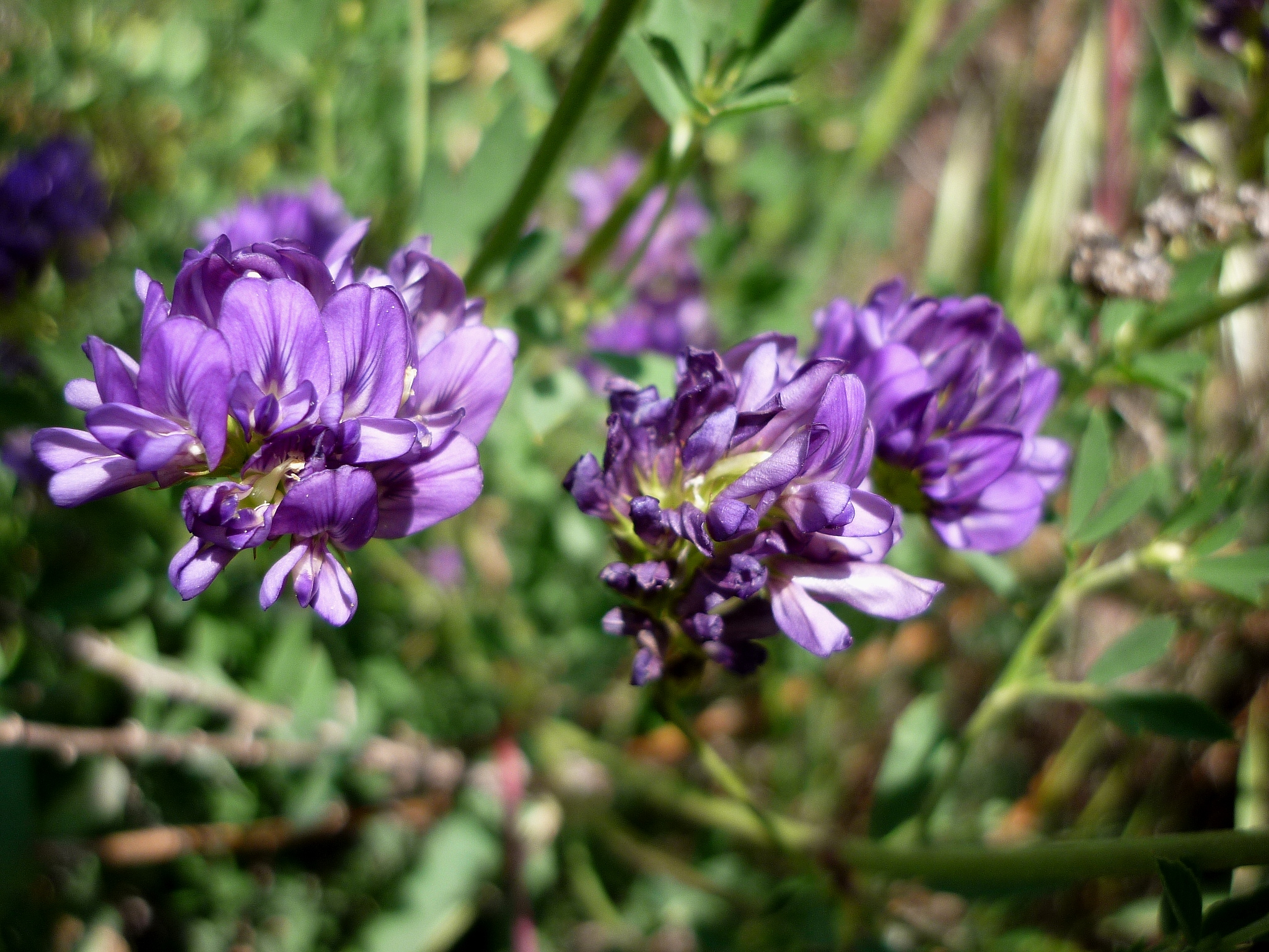 Medicago sativa. In Torà (Segarra-Catalunya). To 600 m. altitude